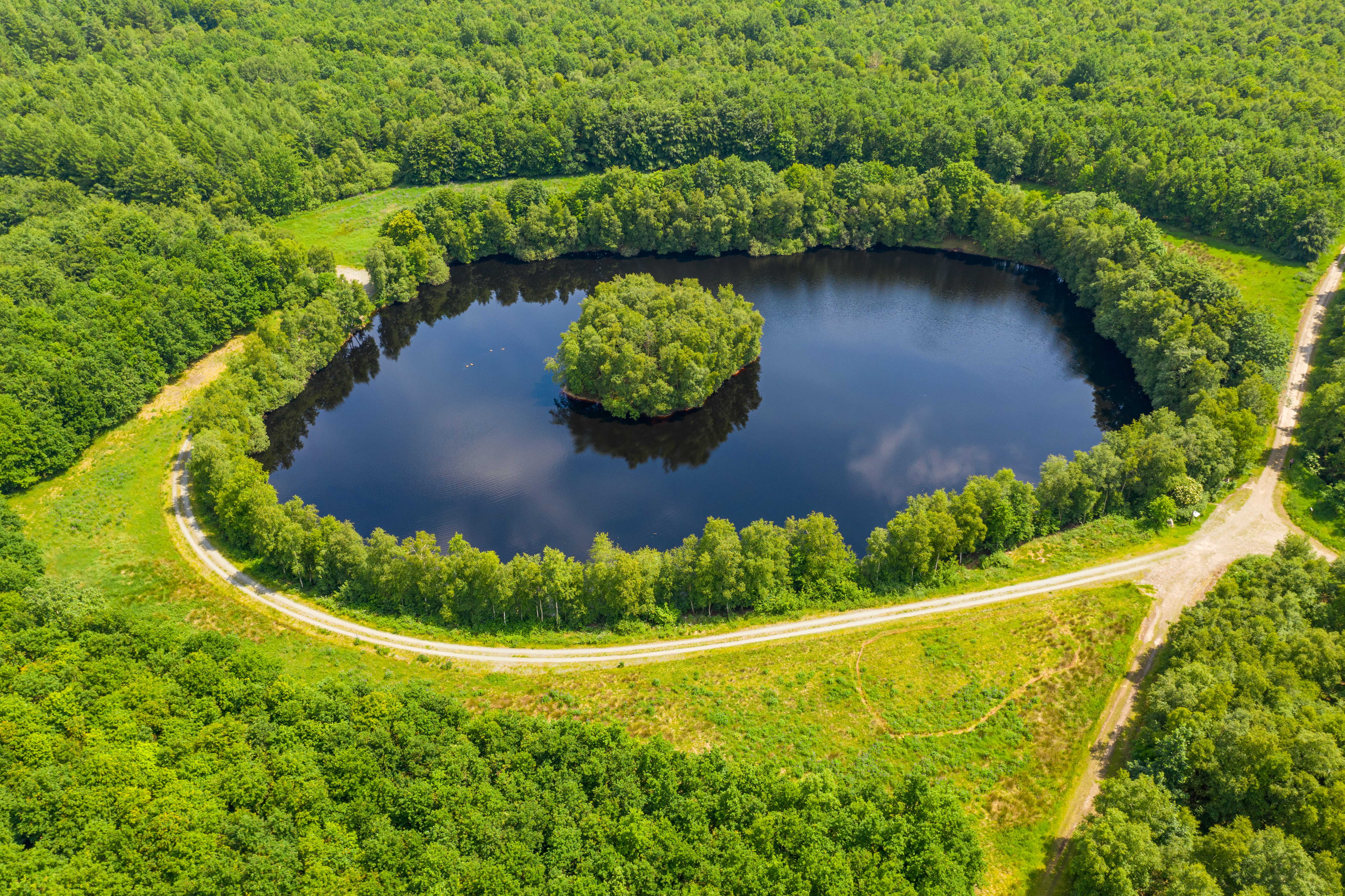 Unnamed lake in the protected landscape area “Berumerfehner - Meerhusener Moor” in Großheide